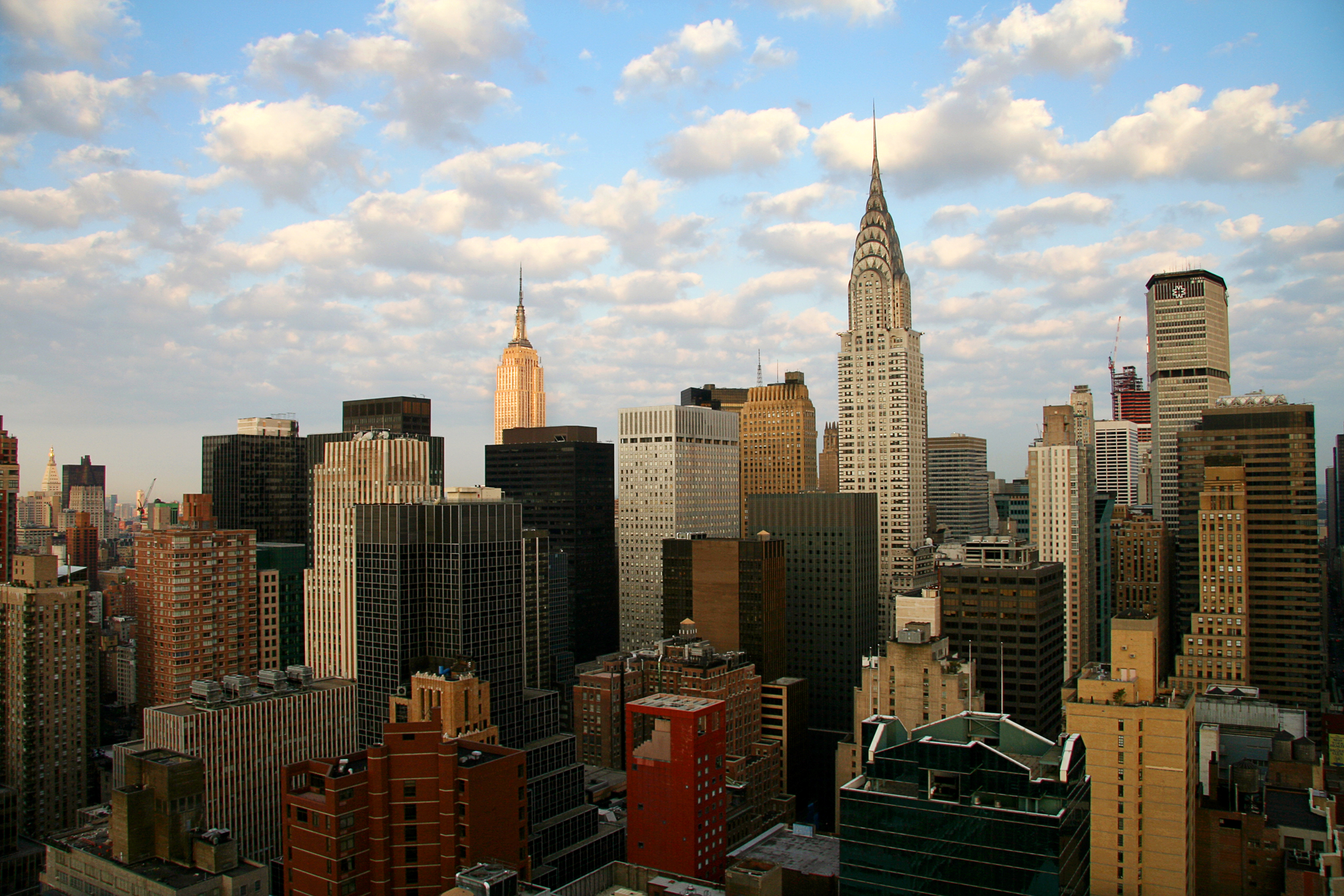 Manhattan, New York City on an early morning